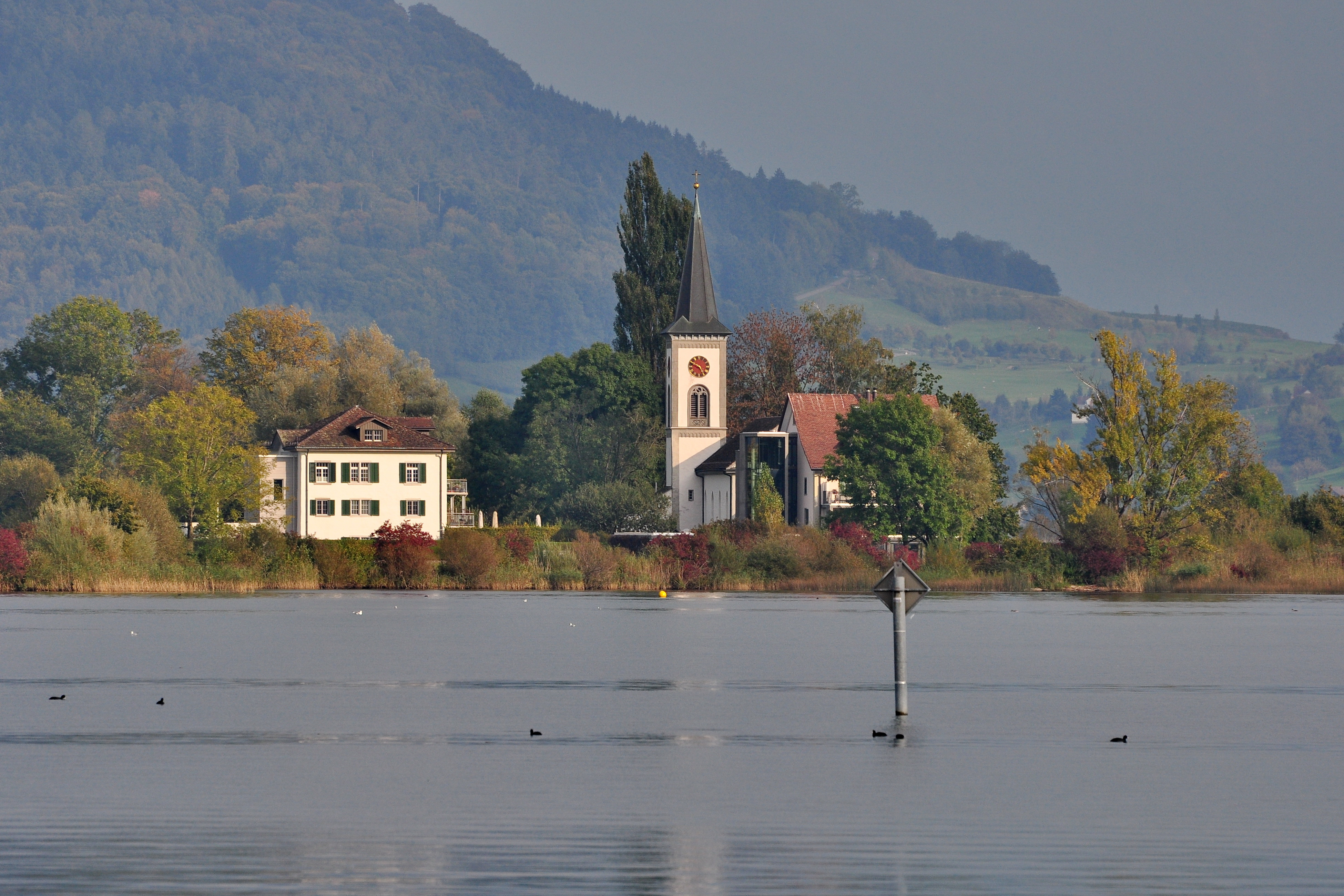 Obersee (upper Lake Zurich) and St. Martin Busskirch in Switzerland, as seen from Holzbrücke between Rapperswil and Hurden.